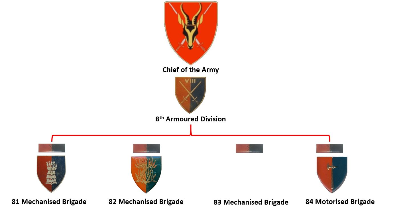 SADF Organigram 8th SA Division.